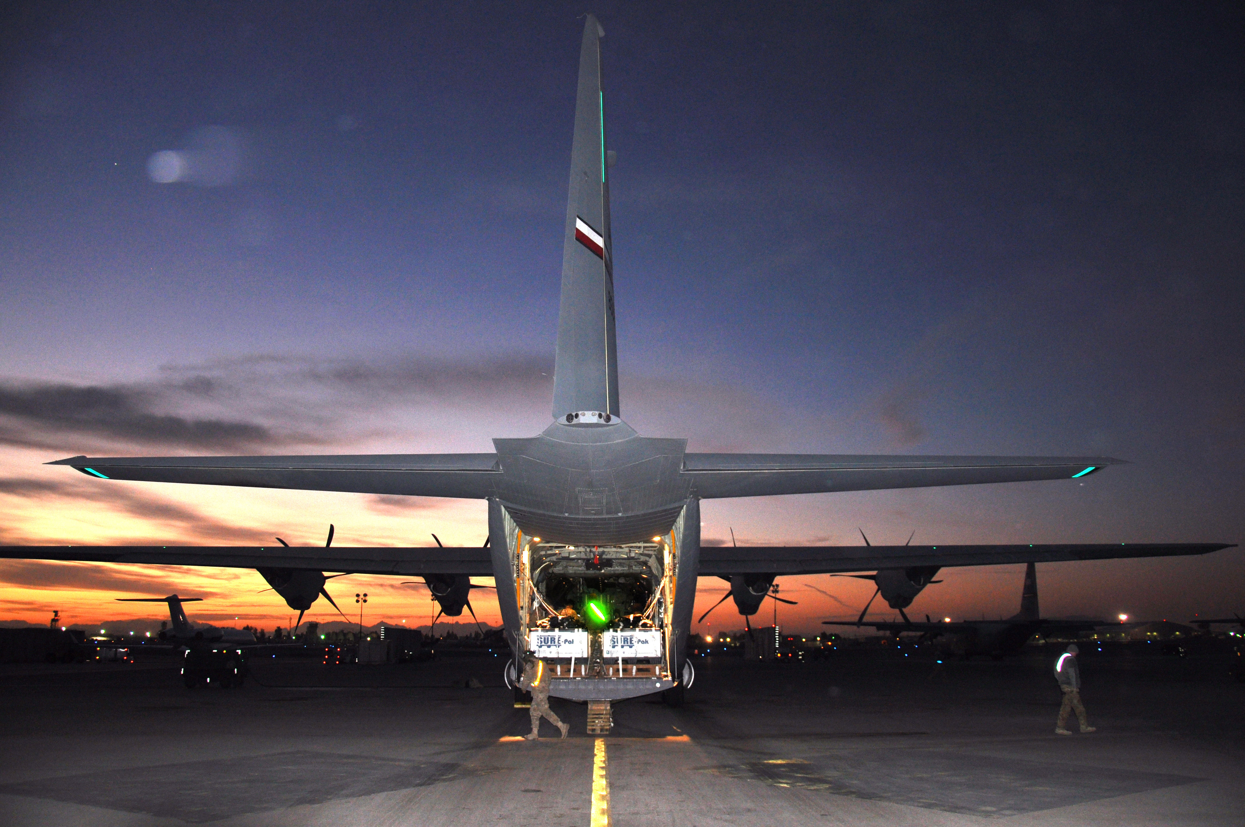 A C-130J with the 772 Expeditionary Airlift Squadron at Kandahar Airfield is loaded with supplies to be airdropped Nov. 15. The aircraft and most of the squadron is deployed from Dyess Air Force Base, Texas. (U.S. Air Force photo/Capt. Tristan Hinderliter) The 772d Expeditionary Airlift Squadron consists of airmen from the 317th Airlift Group, Dyess AFB, Texas